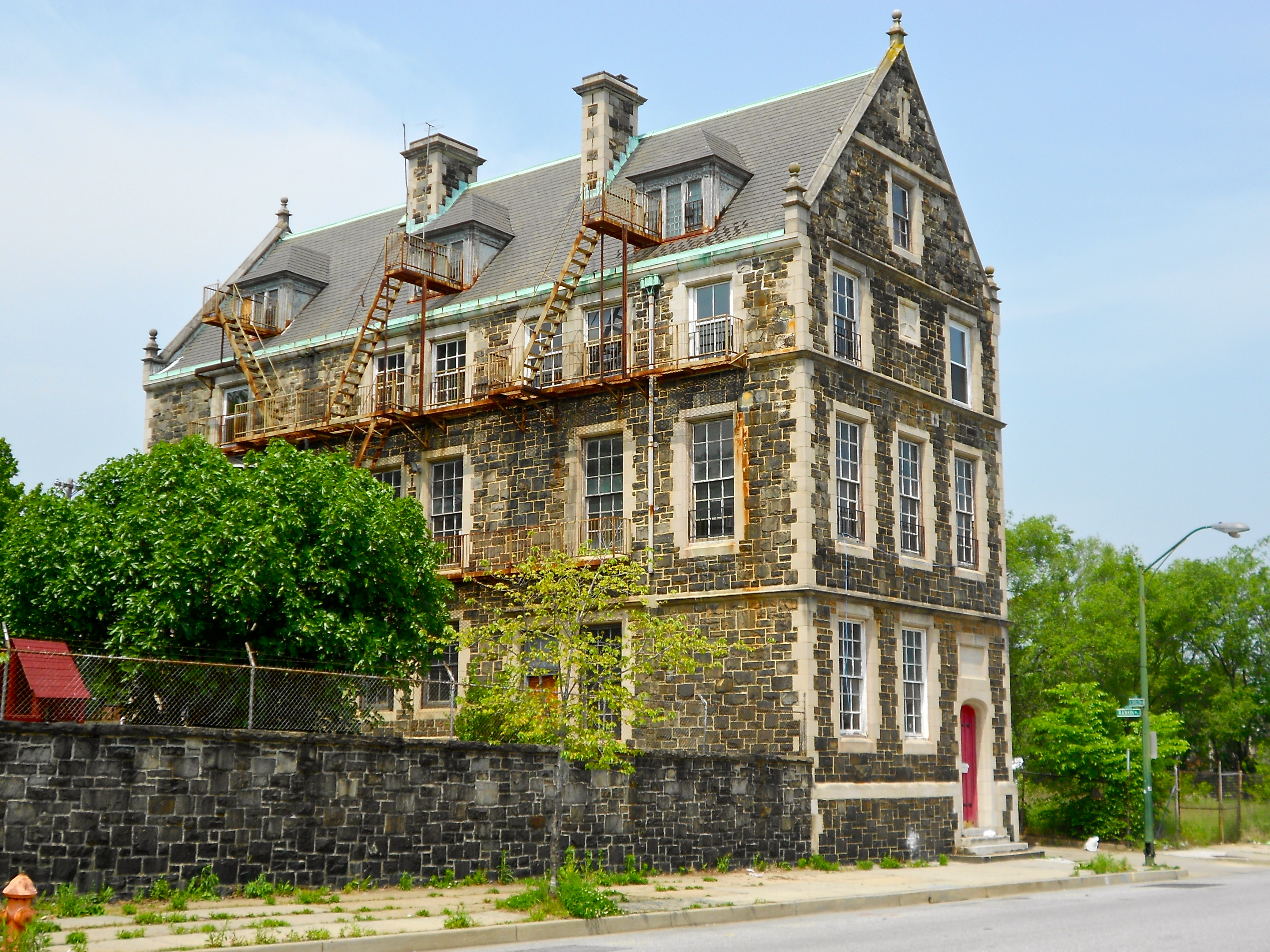 The Clergy House of St Luke's Episcopal Church, Baltimore. Now empty, on the NRHP.